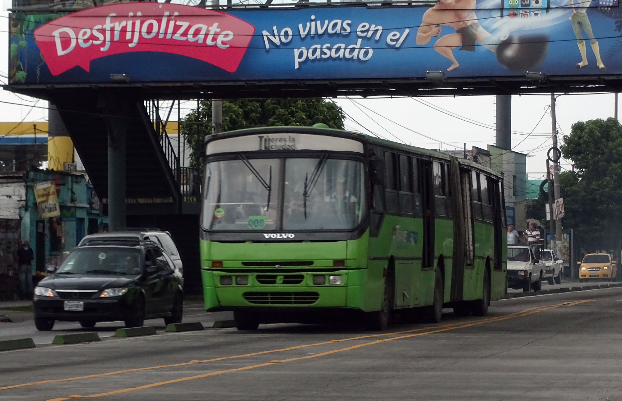 Volvo bus of Guatemala City Transmetro at Mariscal bus station.